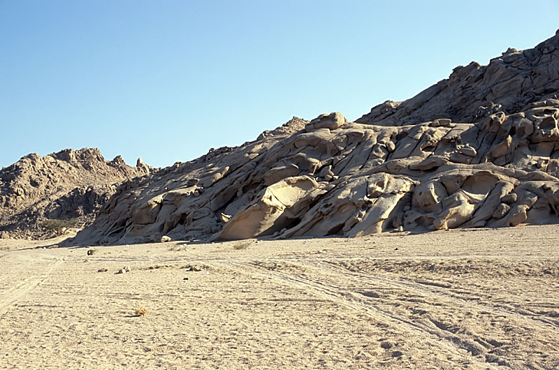 Rocks in the Nabq Protected Area, Sinai, Egypt